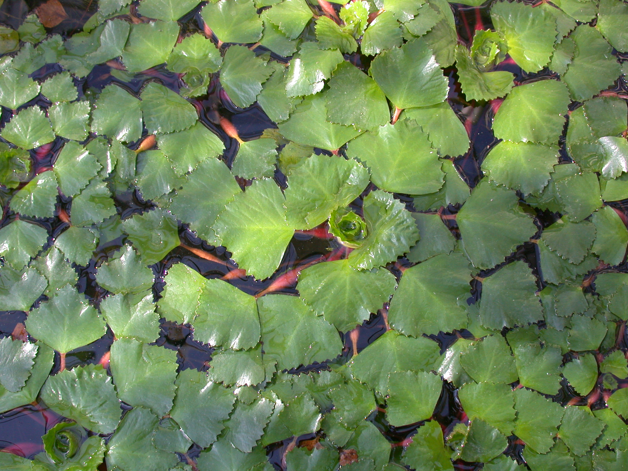 Leaves of Trapa natans (Lythraceae), Botanical Garden Bern, Switzerland